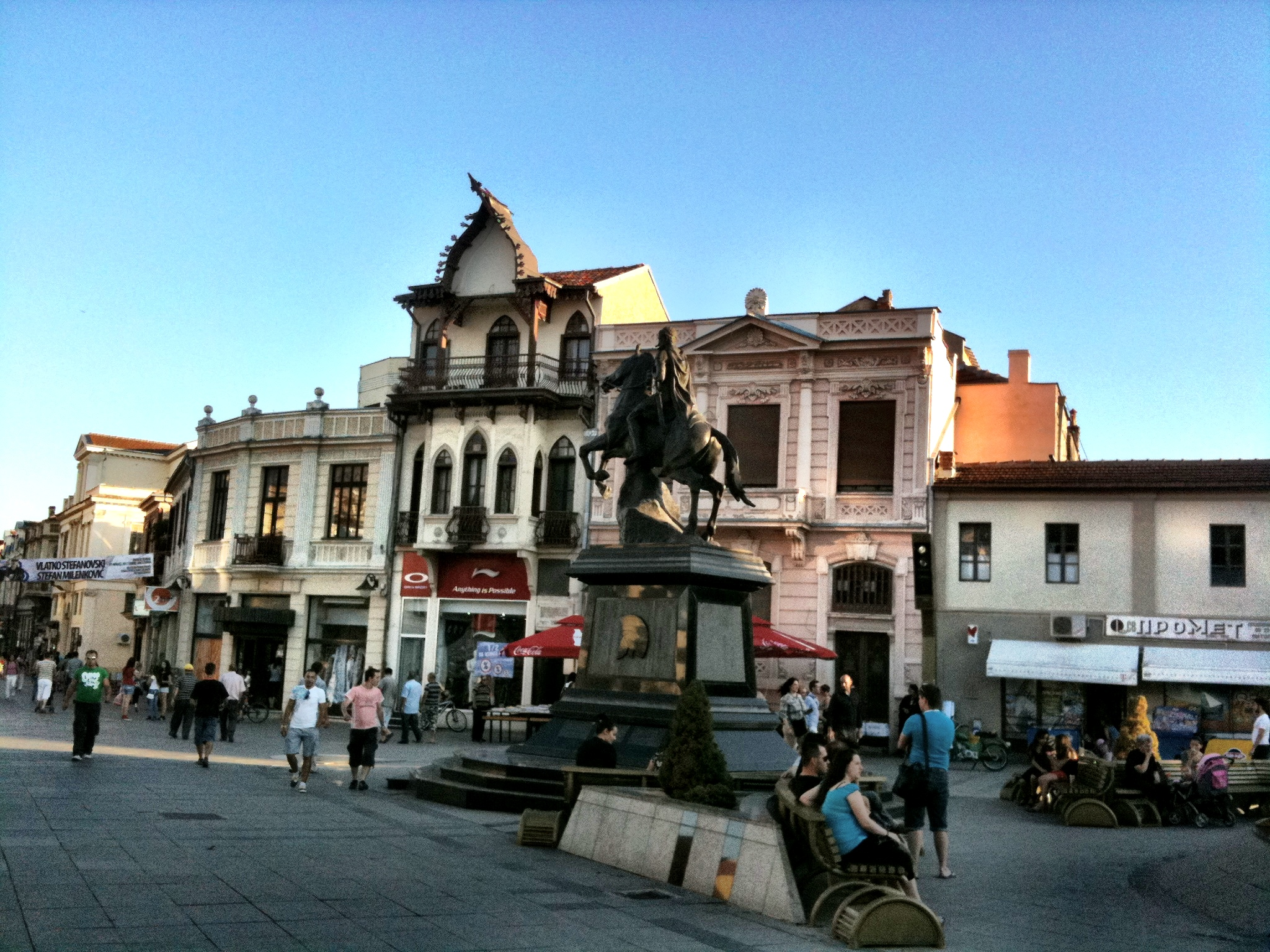 Philip II Square, Bitola